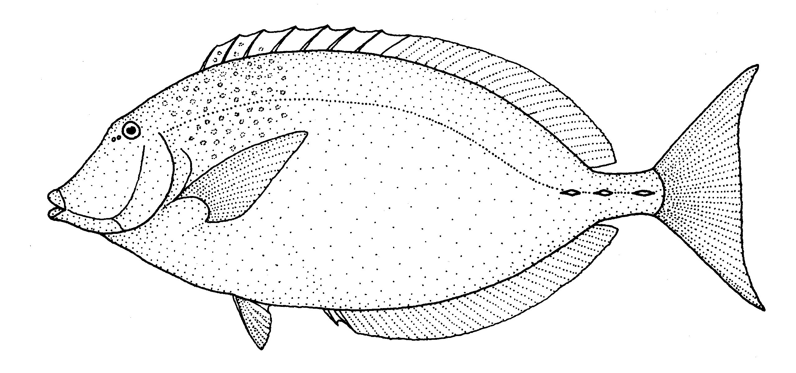 Prionurus maculatus (Yellowspotted sawtail)